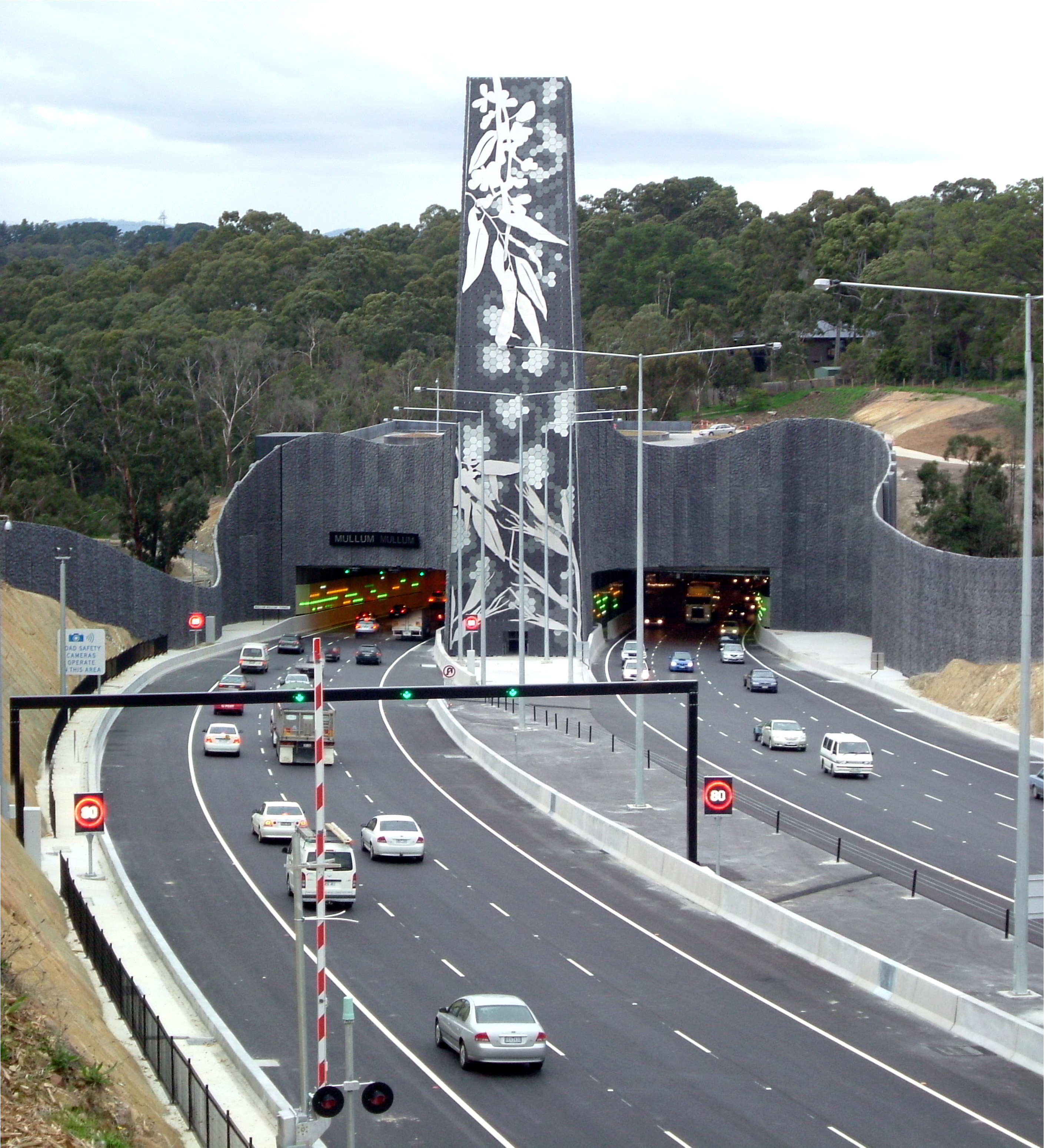 The entrance to the Mullum Mullum Tunnel in Ringwood, Victoria. The tunnel is apart of the EastLink project.